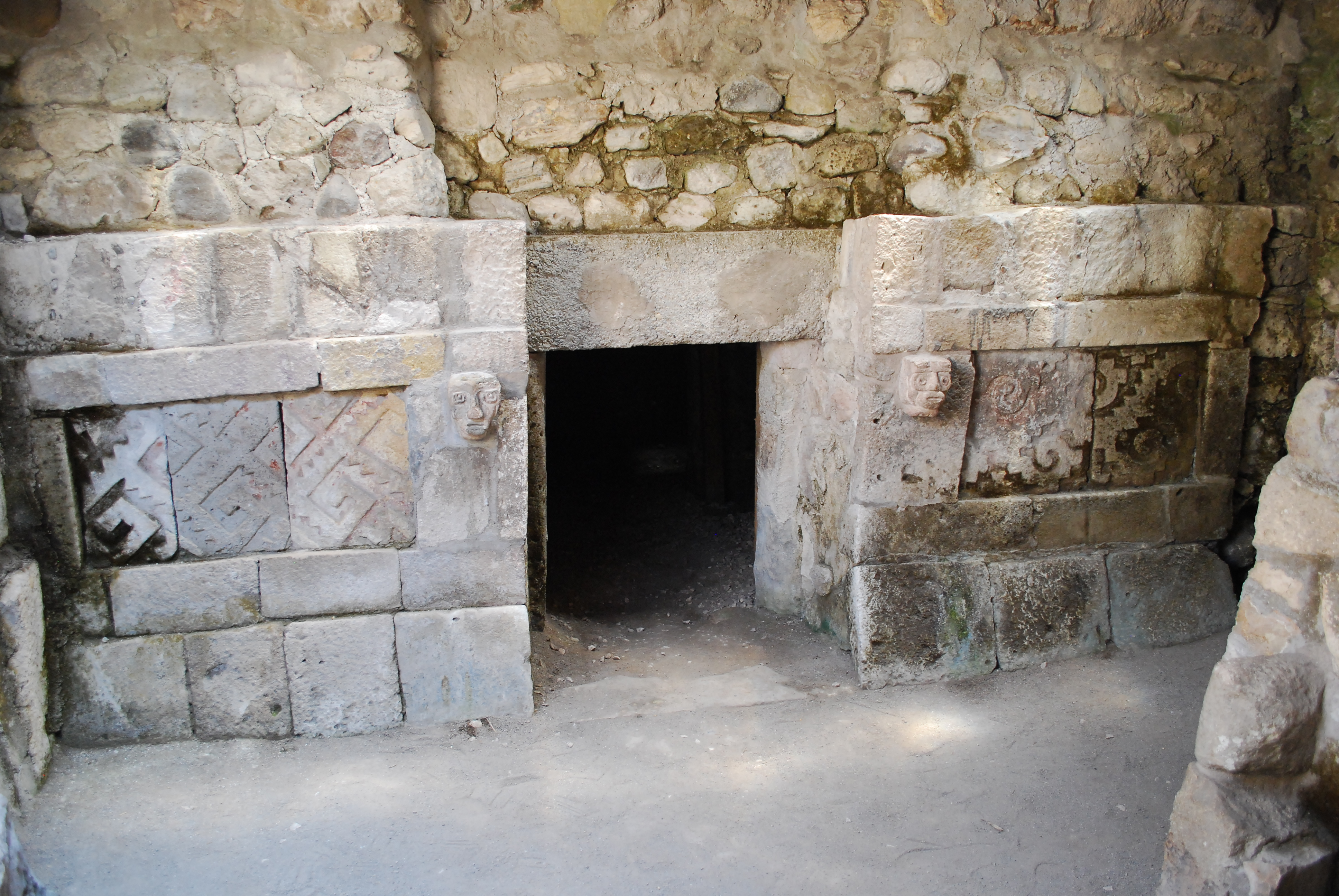 One of the tombs in the Triple Tomb of Yagul, Oaxaca, Mexico